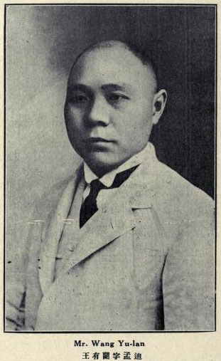 Wang Youlan (1887－1967)